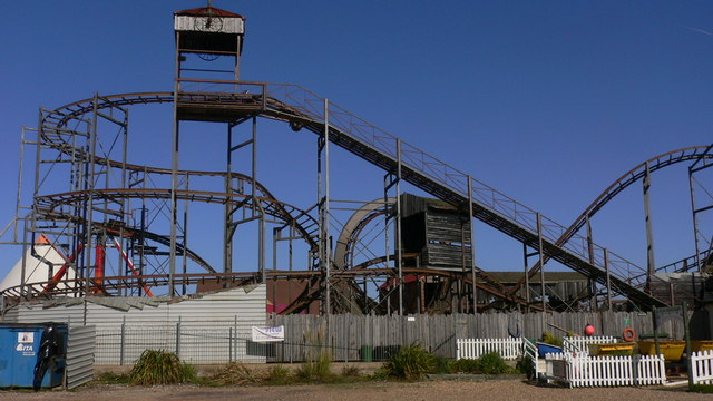 Hayling Funland seen from the beach